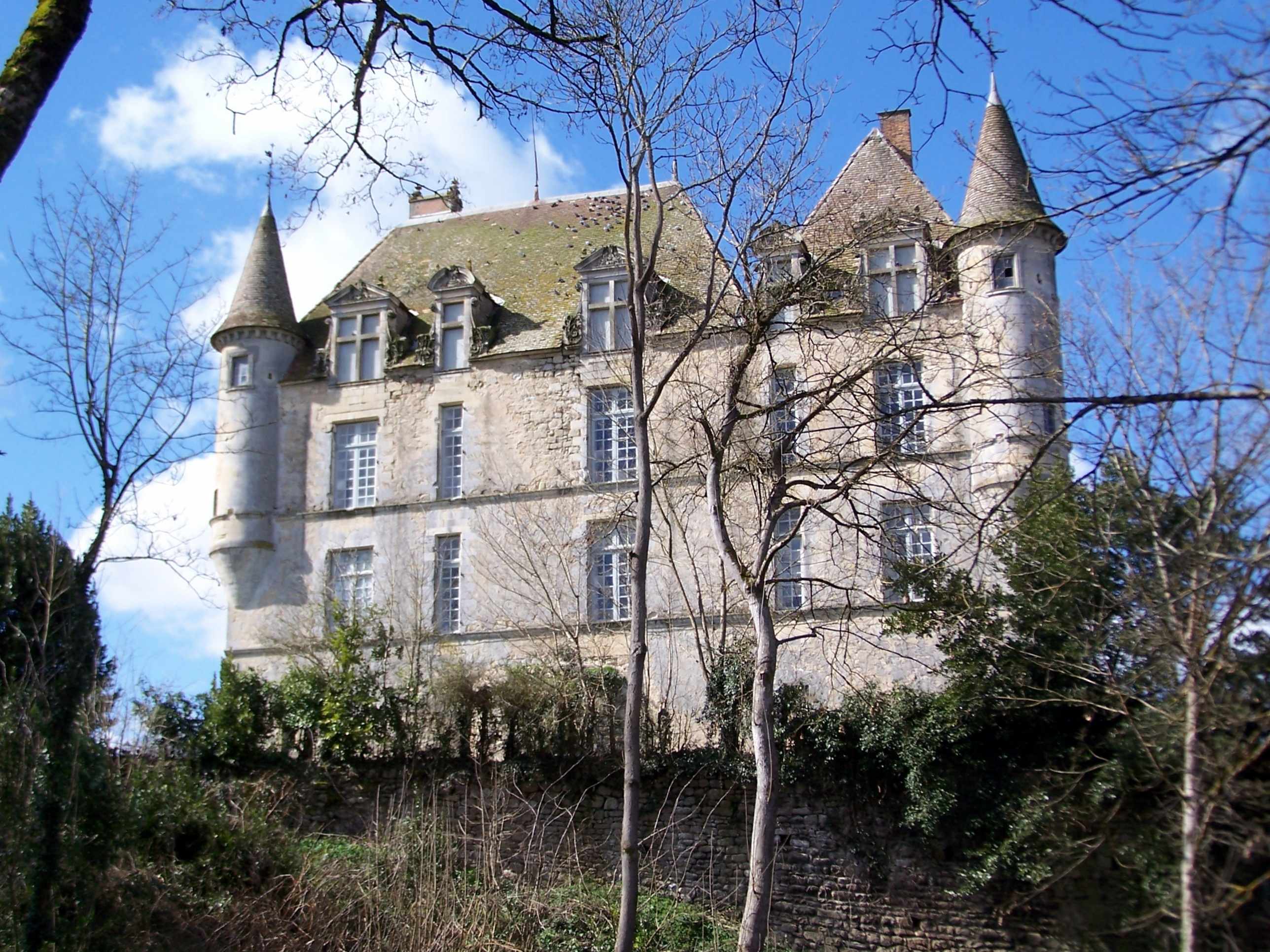 Castle du Hamel in Castets-en-Dorthe (Gironde, France)